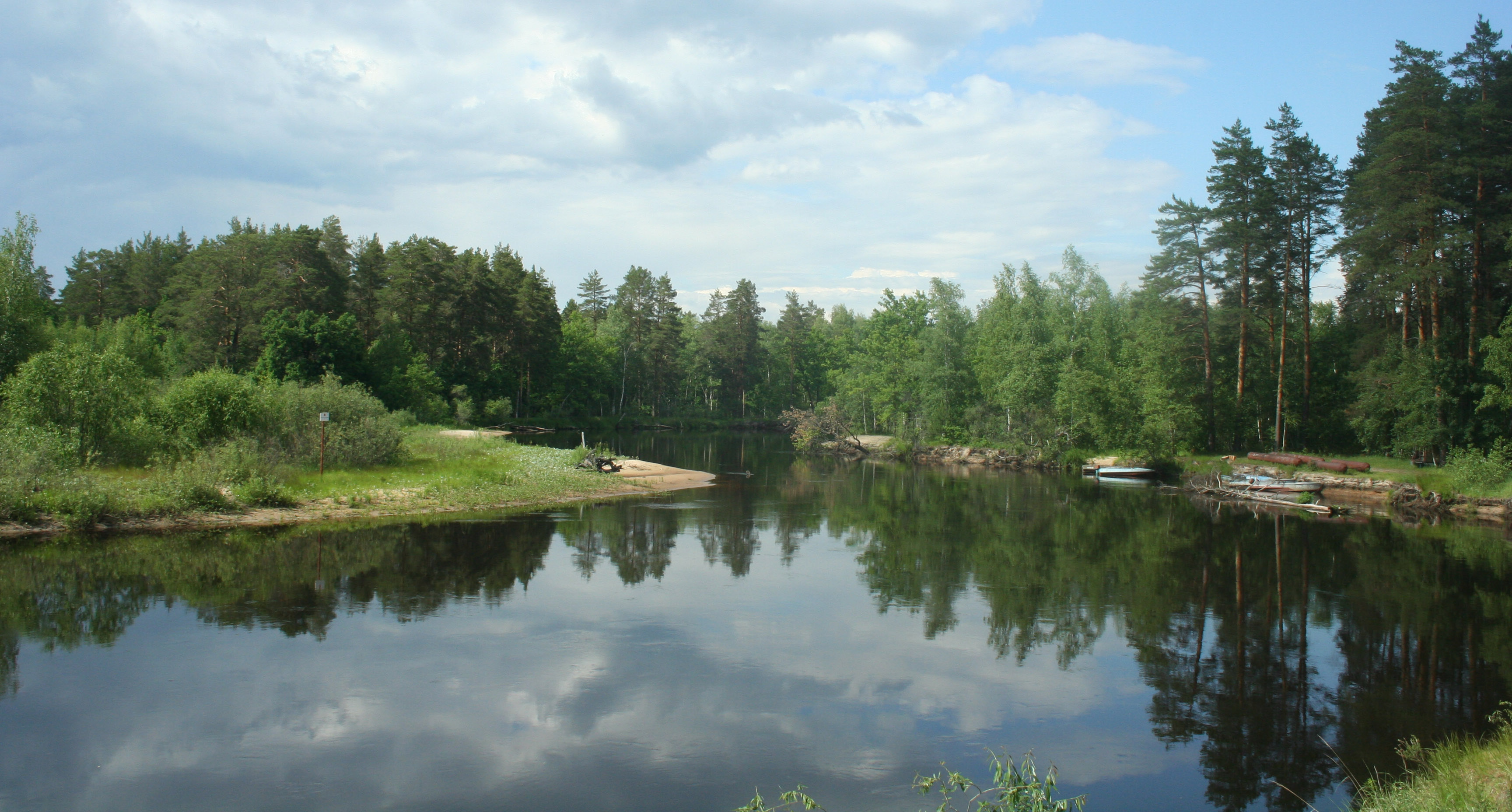 Photo taken in Oksky Reserve. In the summer of 2011. In the photo the bank of the river Pra.